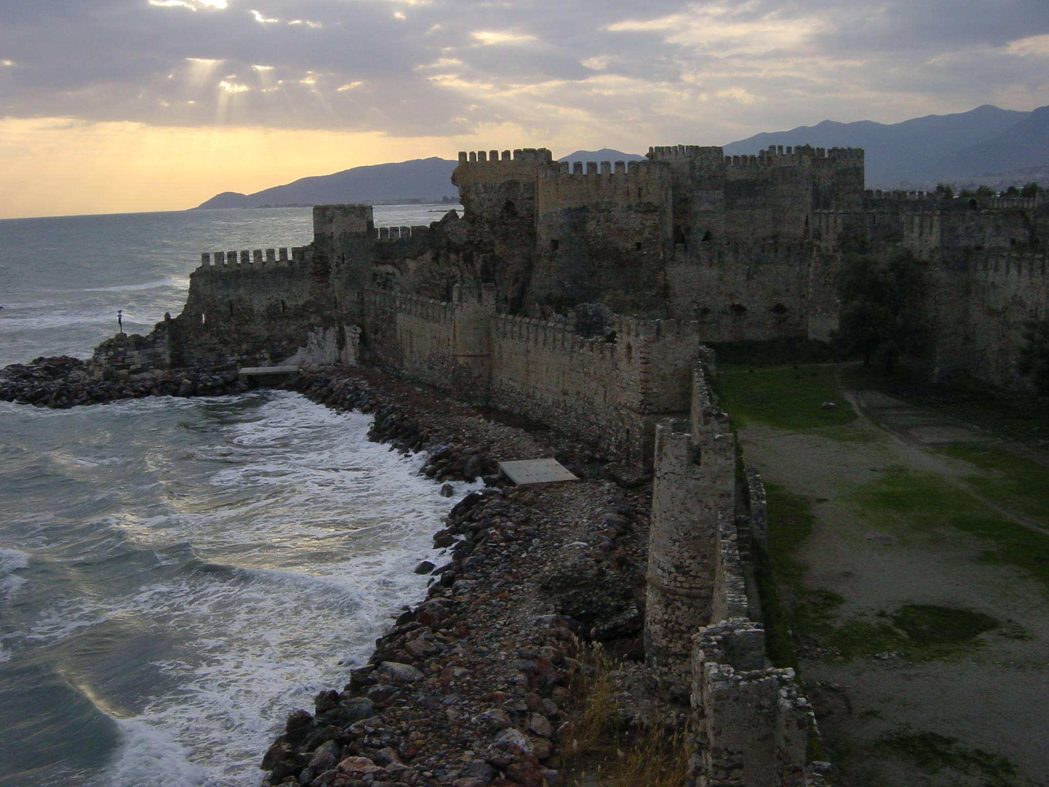 a crusader castle in the turkish province of antalya